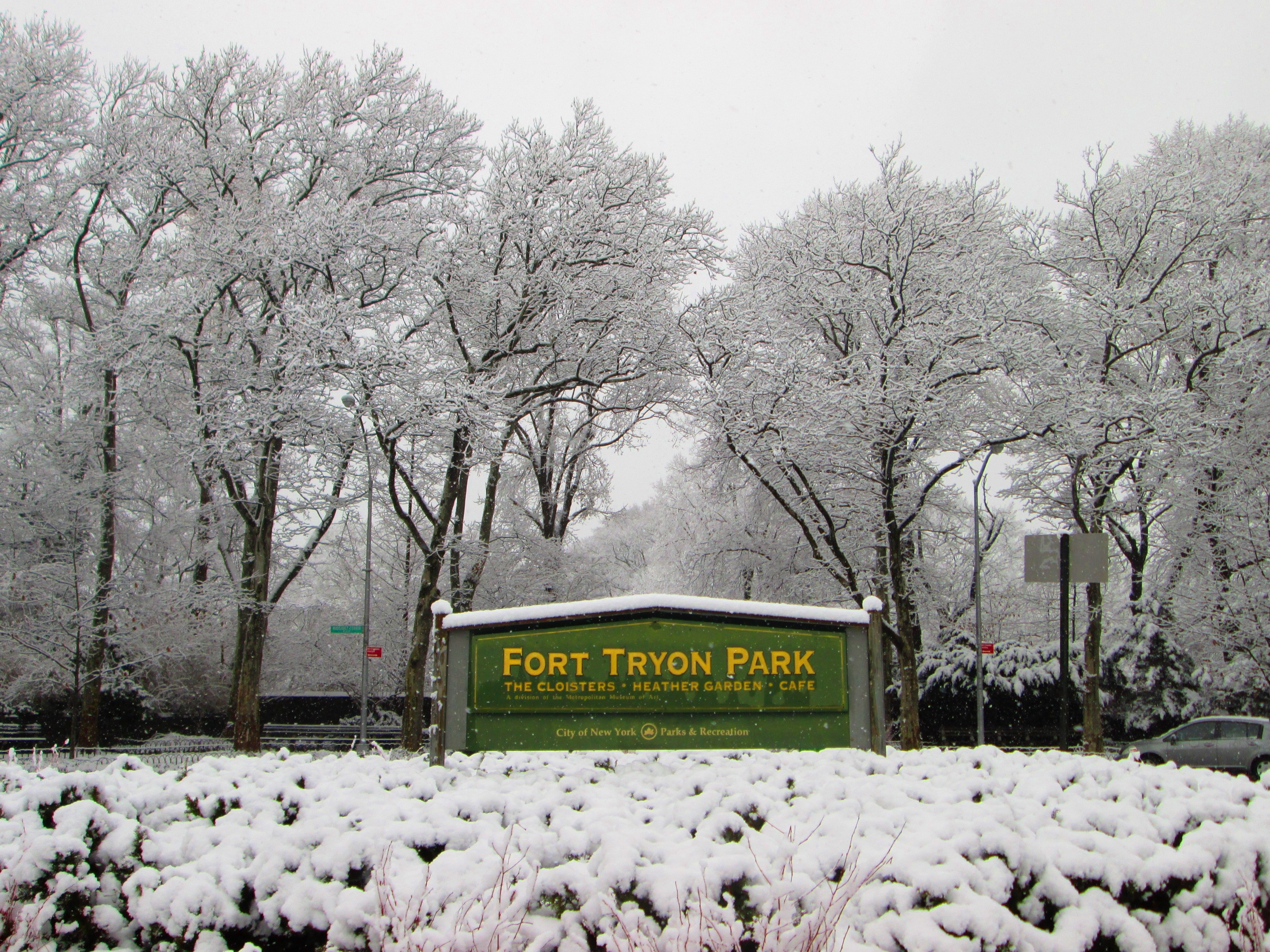 Fort Tryon Park was created when philanthropist John D. Rockefeller, Jr. began to buy up the county estates in the area where the Battle of Washington Heights was fought in the Revolutionary War, in order to create a park. He engaged Frederick Law Olmsted, Jr. of the Olmsted Brothers firm to design the park (James W. Dawson created the planting plan), and gave it to the city in 1931; the park was completed in 1935. Rockefeller also gave to the Metropolitan Museum of Art a collection of medieval art, and the museum built The Cloisters in the park to house it, completing it in 1939. The park extends from West 190th Street to Dyckman Street and from Broadway to Riverside Drive/West Side Highway. The main entrance to the part is at Margaret Corbin Circle, at the intersection of Fort Washington Avenue and Cabrini Boulevard. The park was added to the NRHP in 1978 and was designated a NYC Scenic Landmark in 1983. (Sources: Guide to NYC Landmarks (4th ed.) and AIA Guide to NYC (5th ed.))